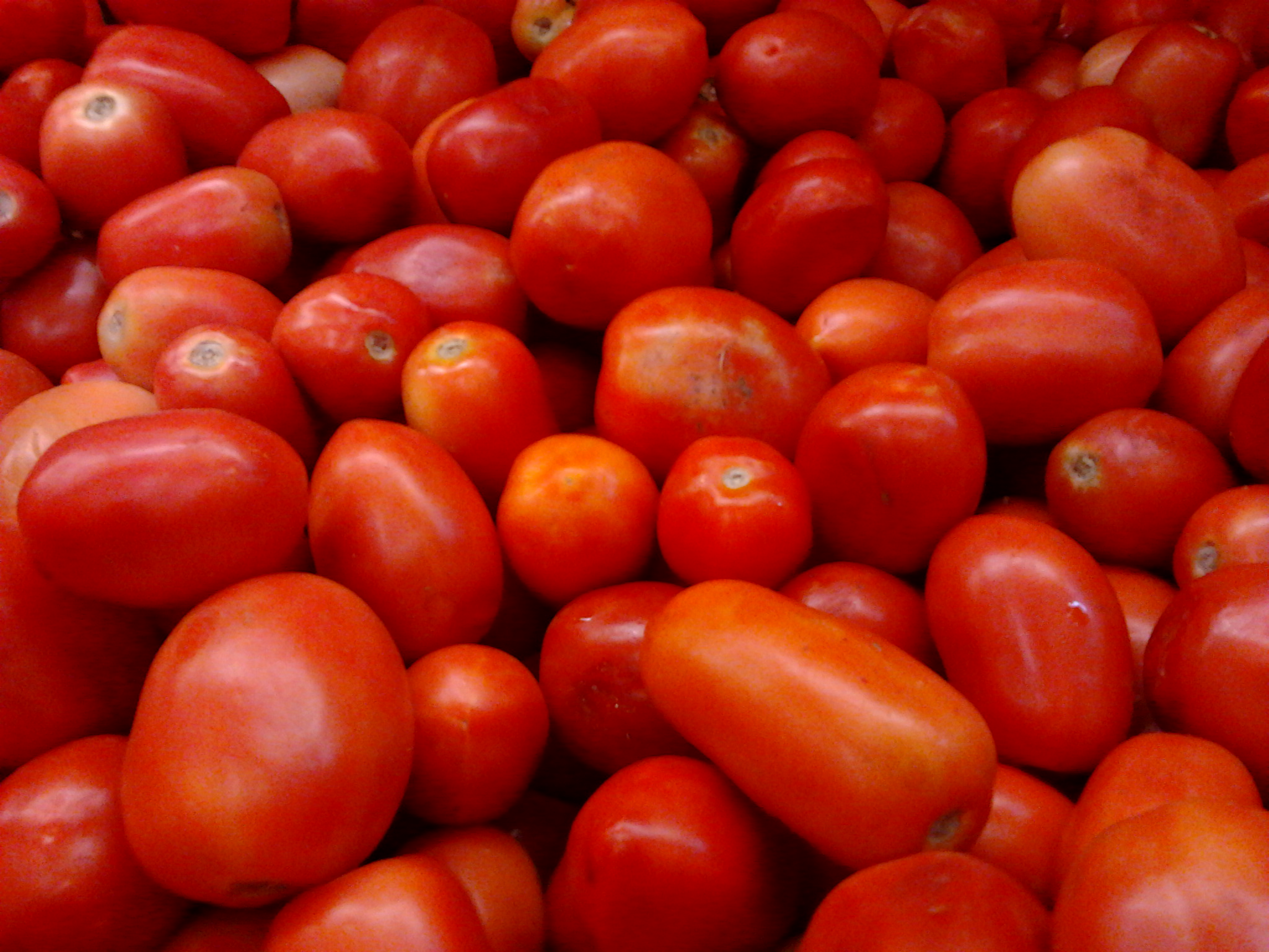 Photoed using Samsung Wave 525.